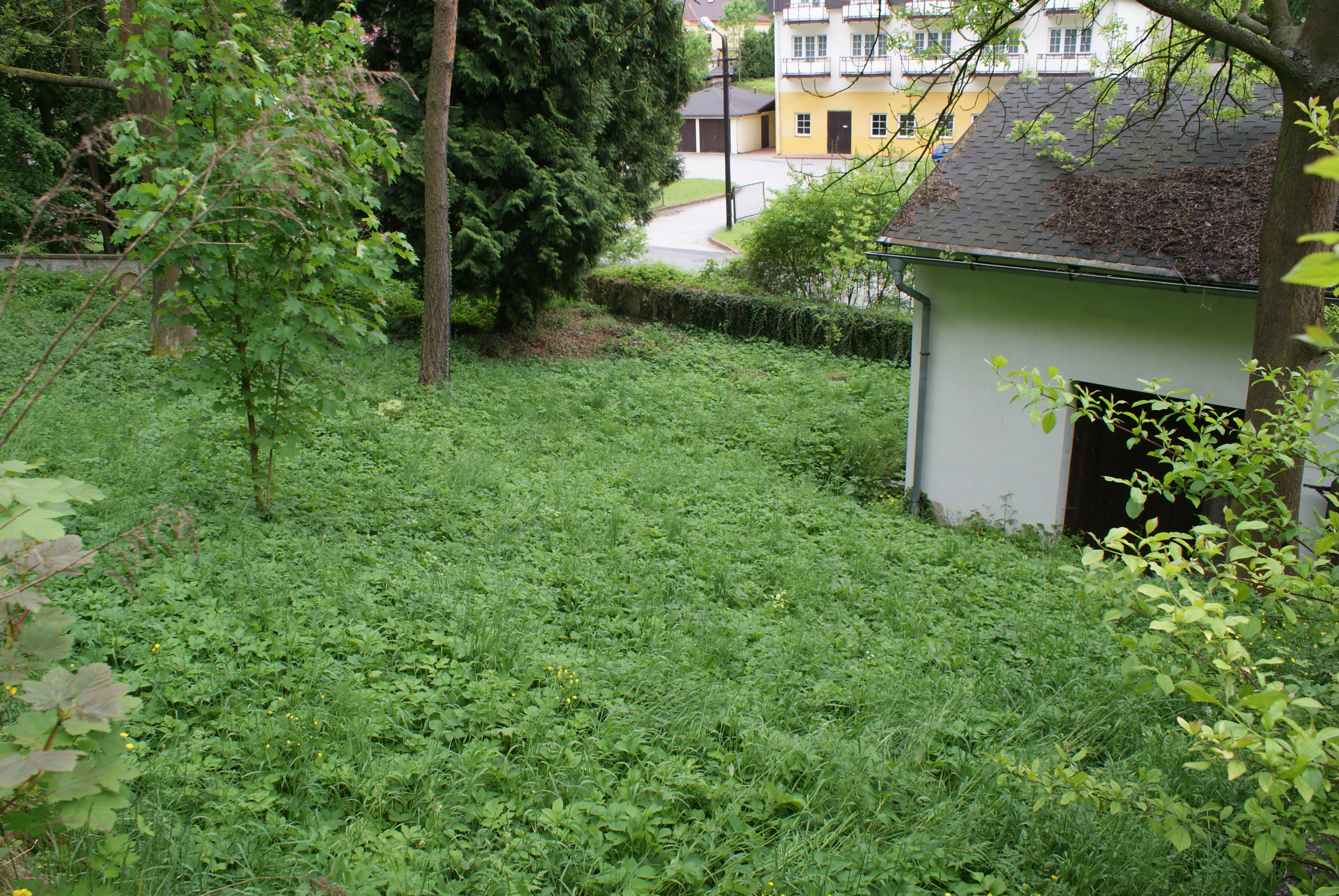 Jewish cemetery in Dolní Cetno, Mladá Boleslav district, Czech Republic.